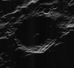 Oblique view of Petzval, on the far side of the moon, facing west.